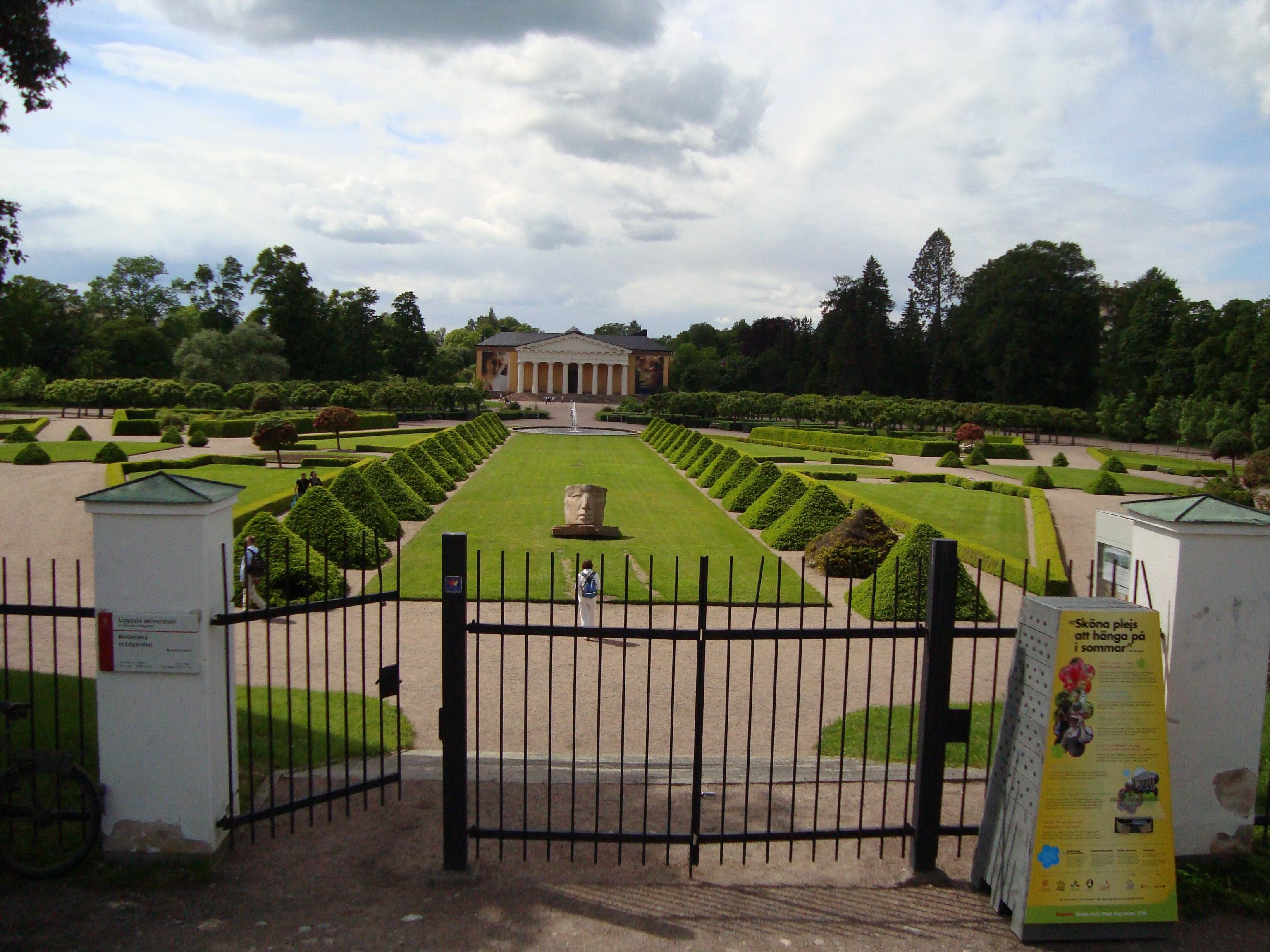 Baroque style garden, of the Uppsala Botanical Garden — adjacent to Uppsala Castle at Uppsala University, Sweden.